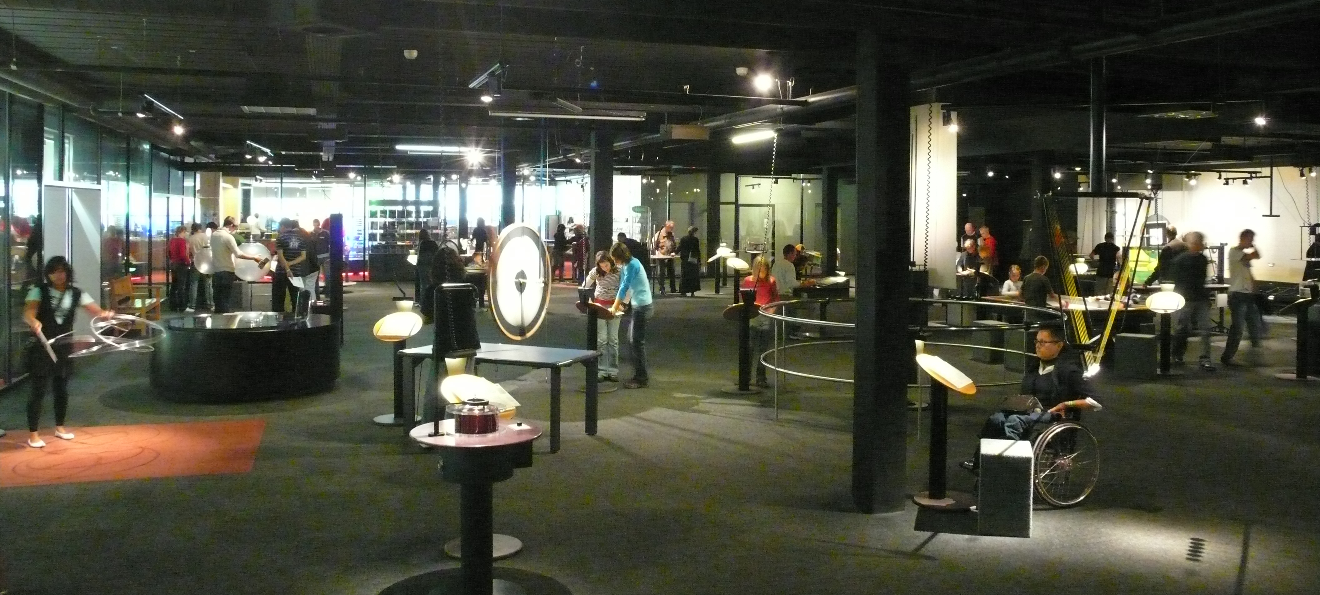 Technorama, Winterthur